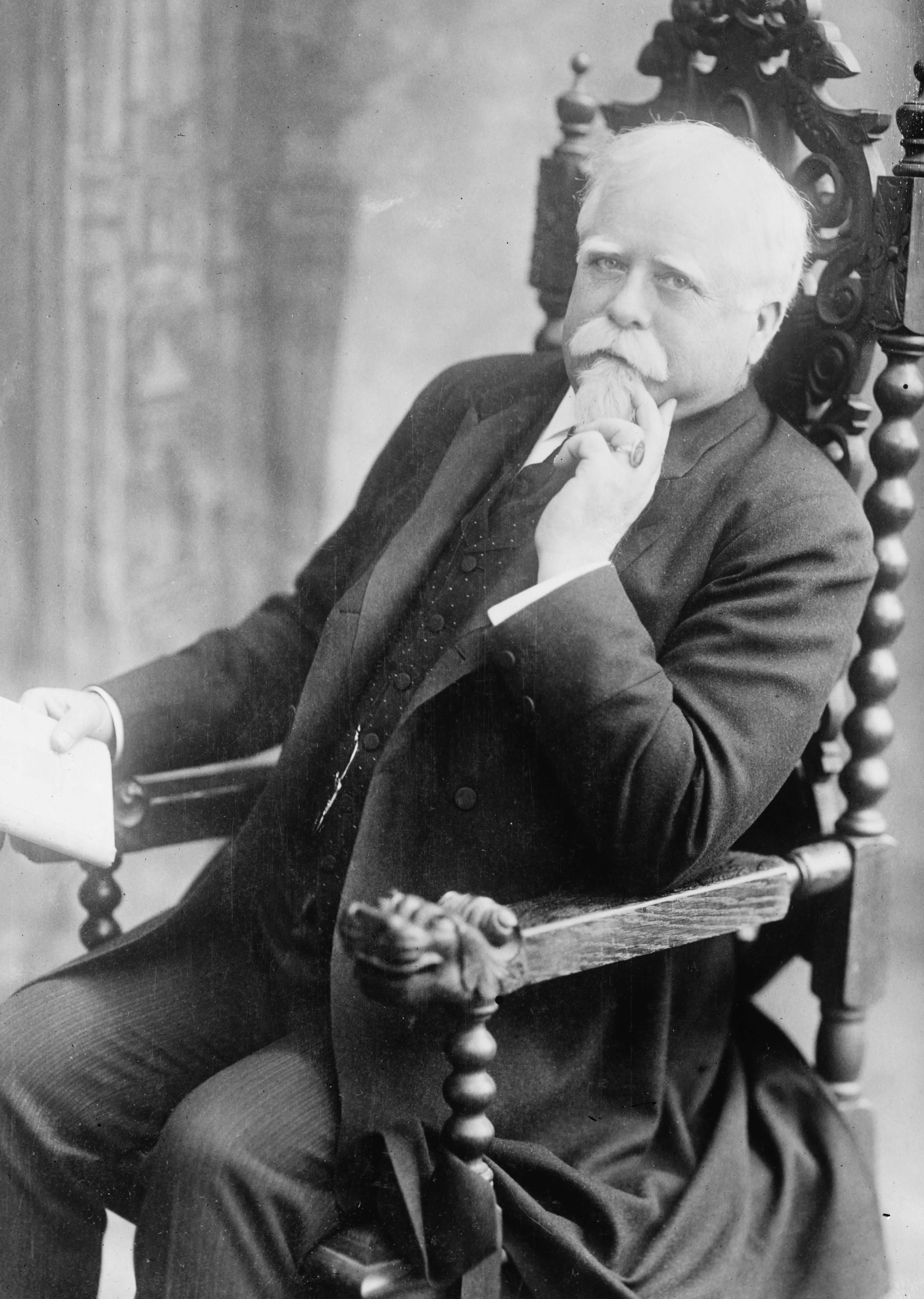 Edwin Warfield, governor of Maryland. From the Library of Congress.